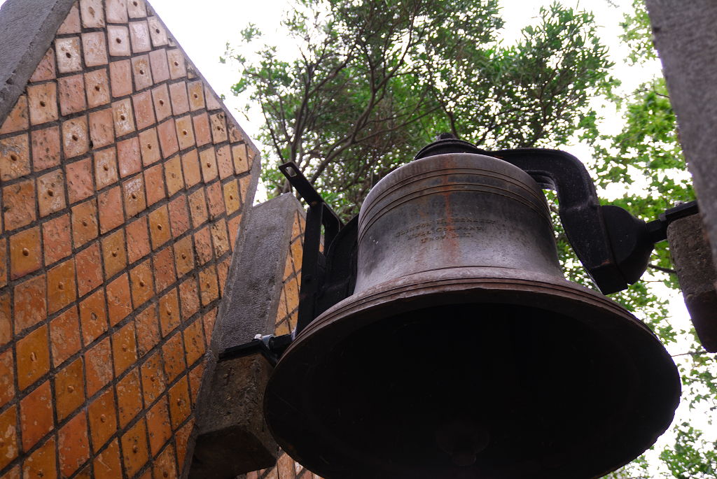 中文（台灣）: 銅鐘由Clinton H. Meneely Bell Company, Troy, N.Y.於1883年所鑄，1965年美國新罕布夏州欽城（Keene）的基督教合一教會所贈，鐘塔於1966年10月完工。上面刻有：「LET HIM THAT HEARETH SAY, COME」，中文函義是「凡聽到的人都說來」。為紀念畢律斯女士（Miss Elsie Priest）命名為畢律斯鐘樓。